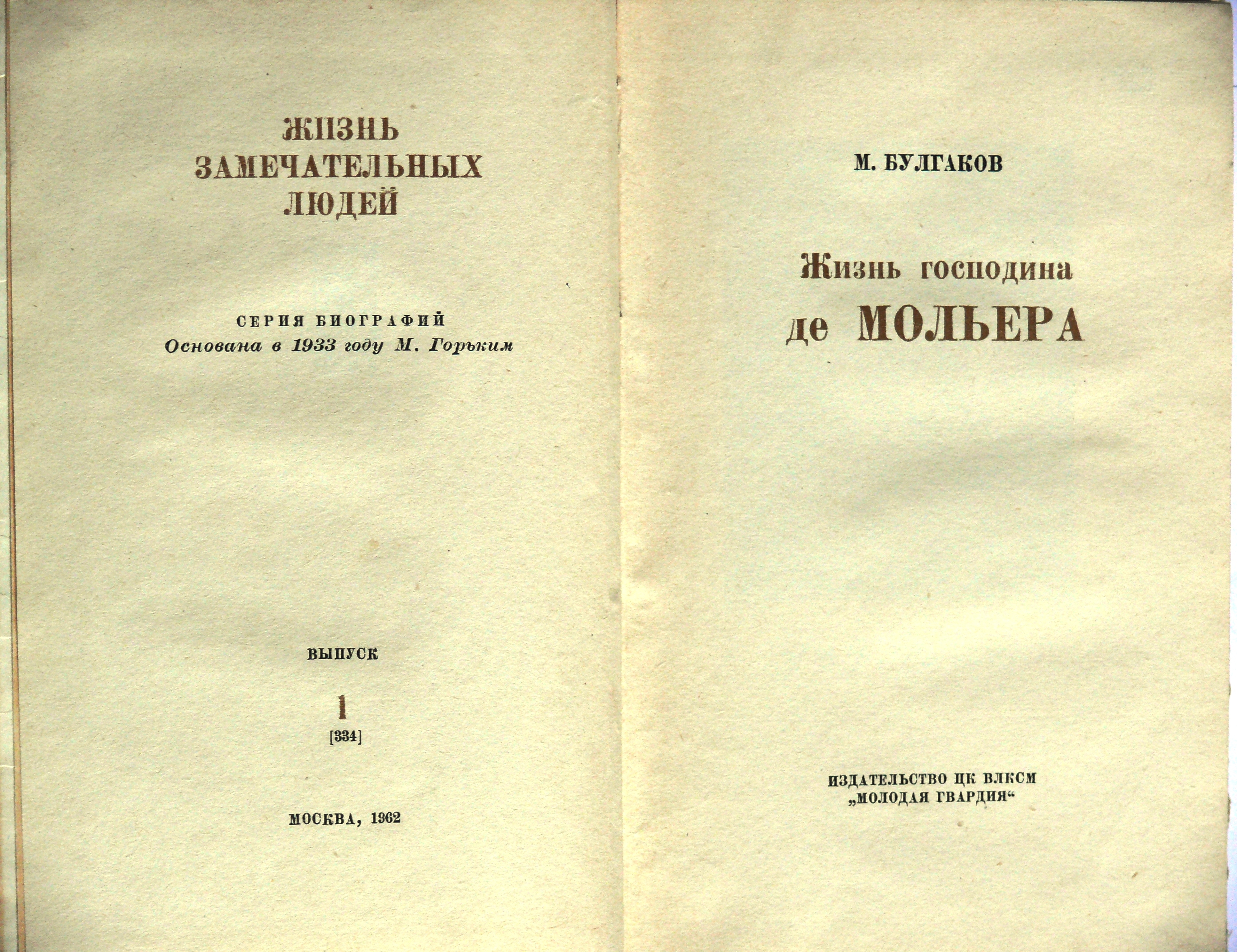 Mikhail Bulgakov book. 1962. Title page